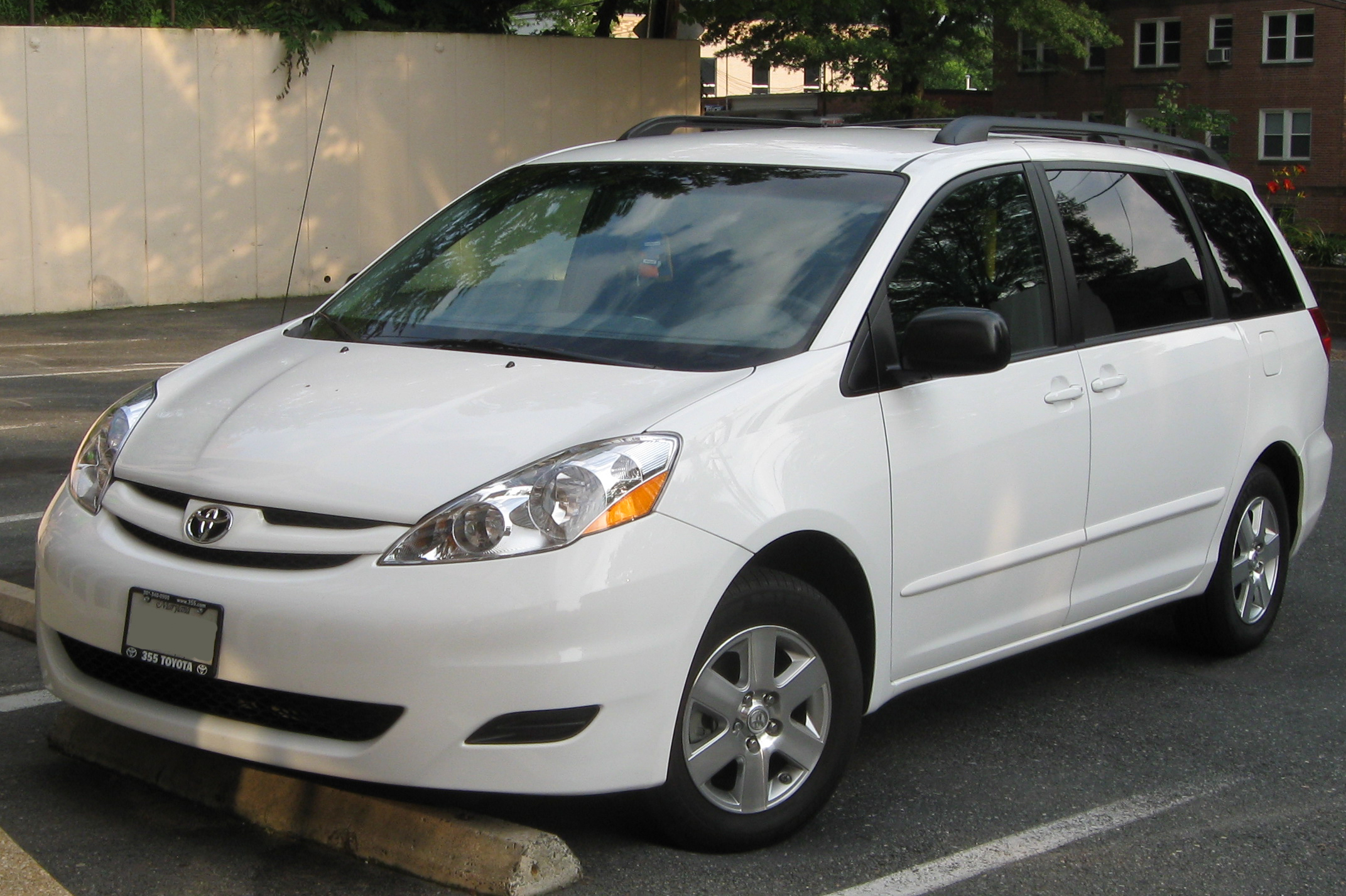 2007-2010 Toyota Sienna photographed in Washington, D.C., USA.